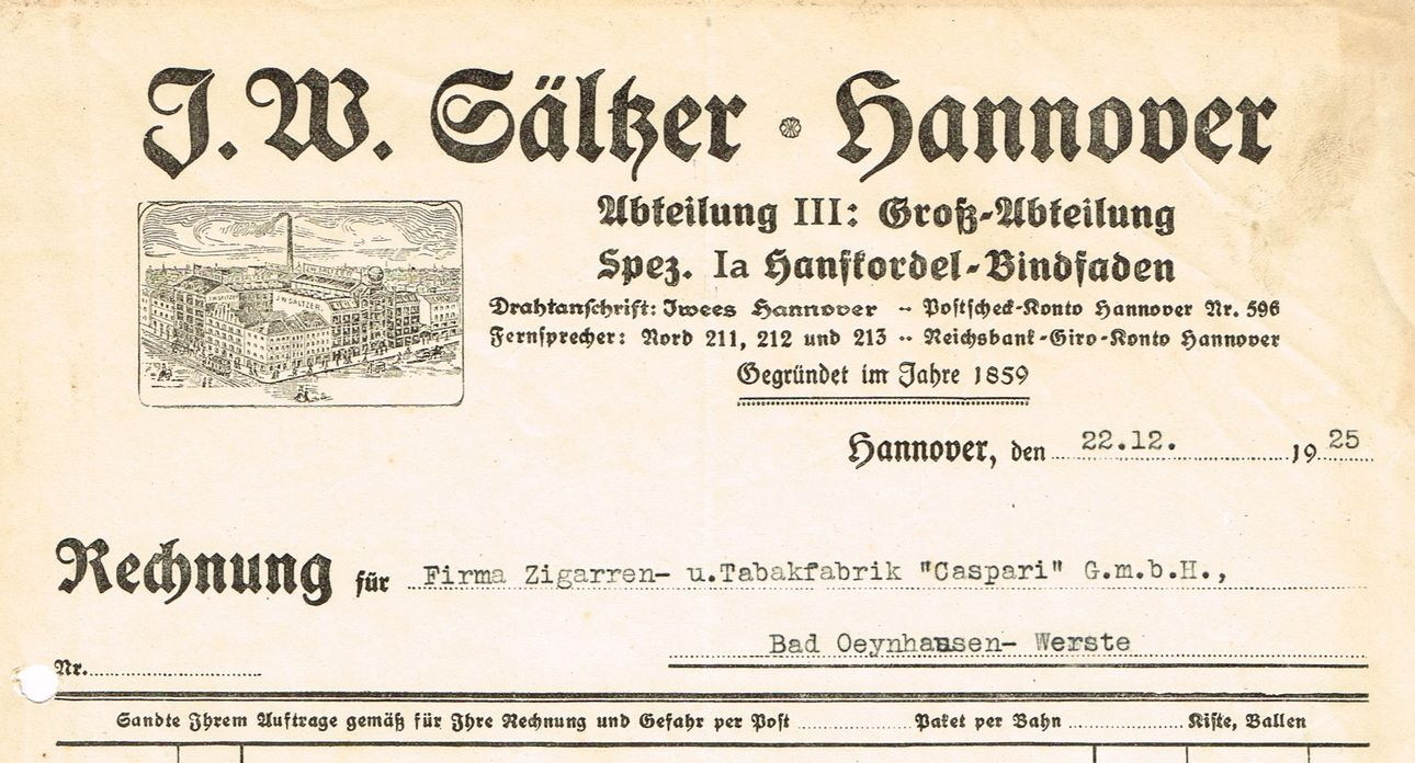 letterhead of the general store J. W. Sältzer in Hanover, 1925